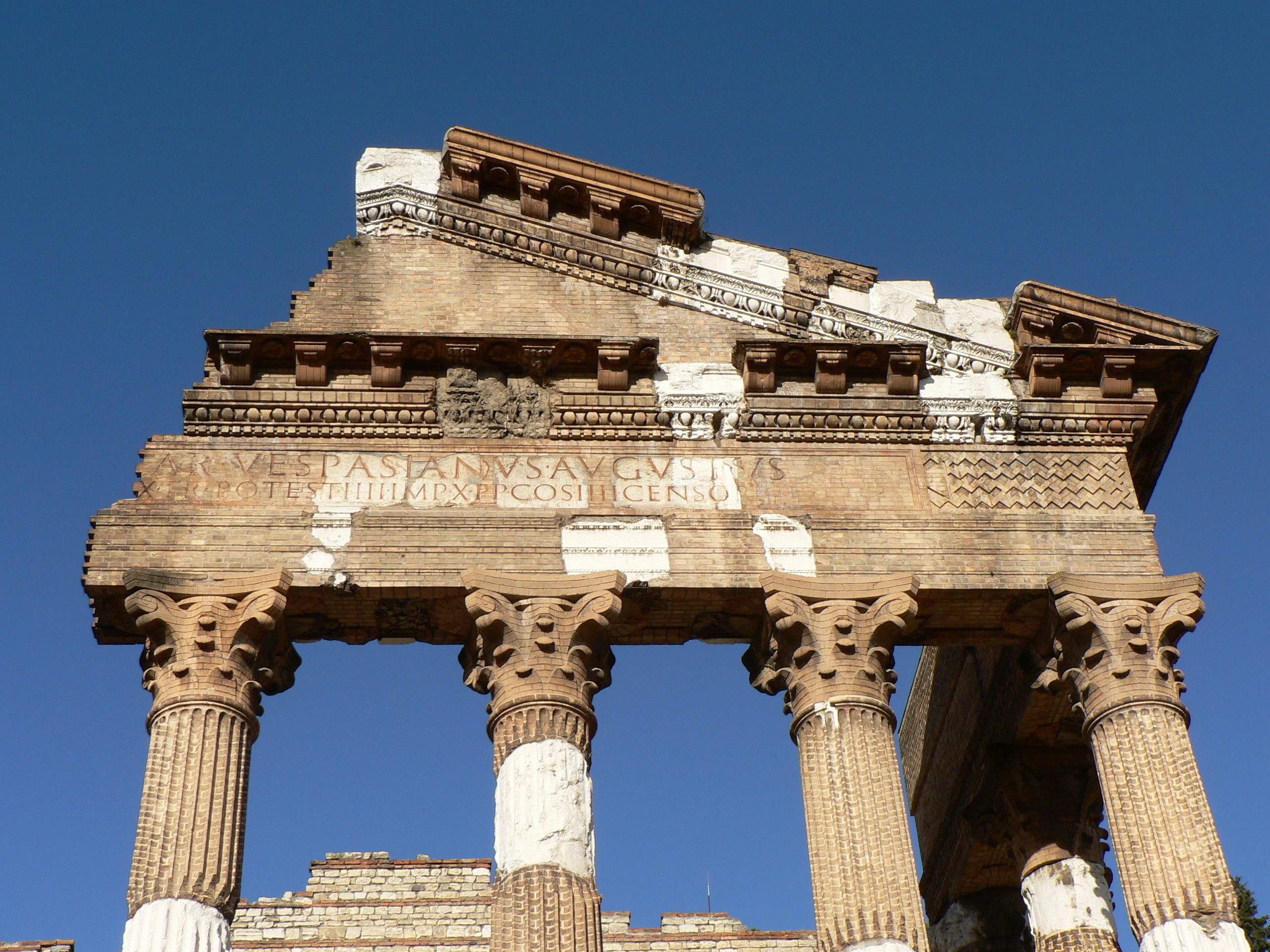 Remains of the Capitolium in Brescia